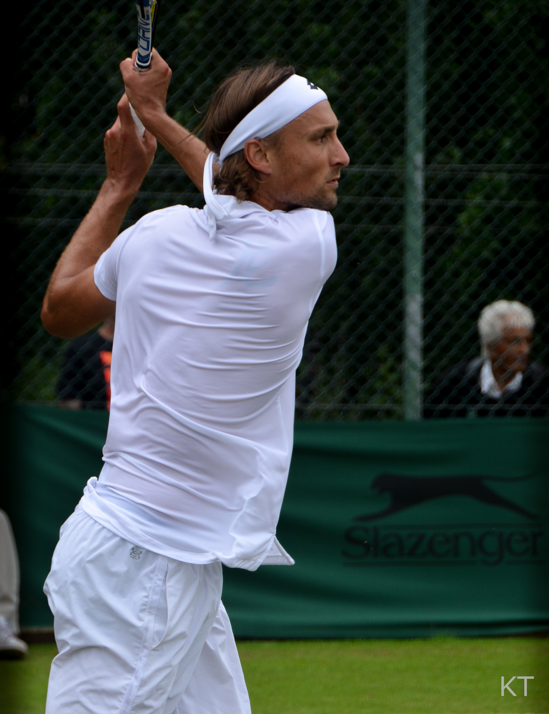 He won all three of his qualifying match and is into the main draw. Wimbledon qualifying 2016